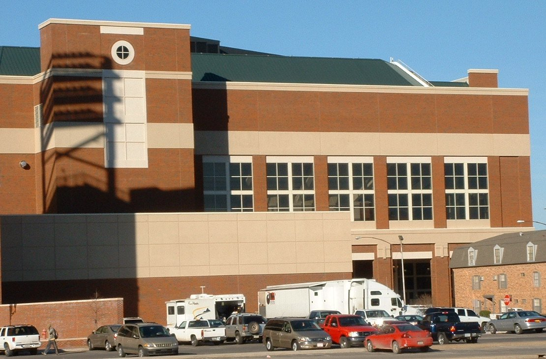 South side view of Gallagher-Iba Arena.